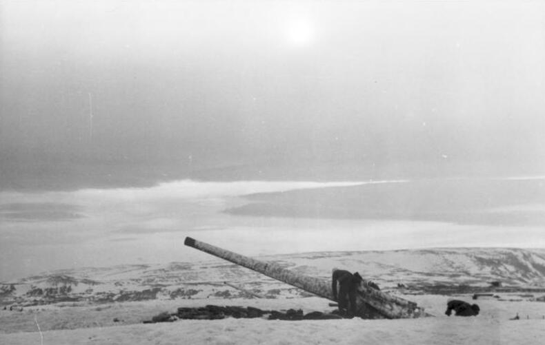 Information added by Wikimedia users.